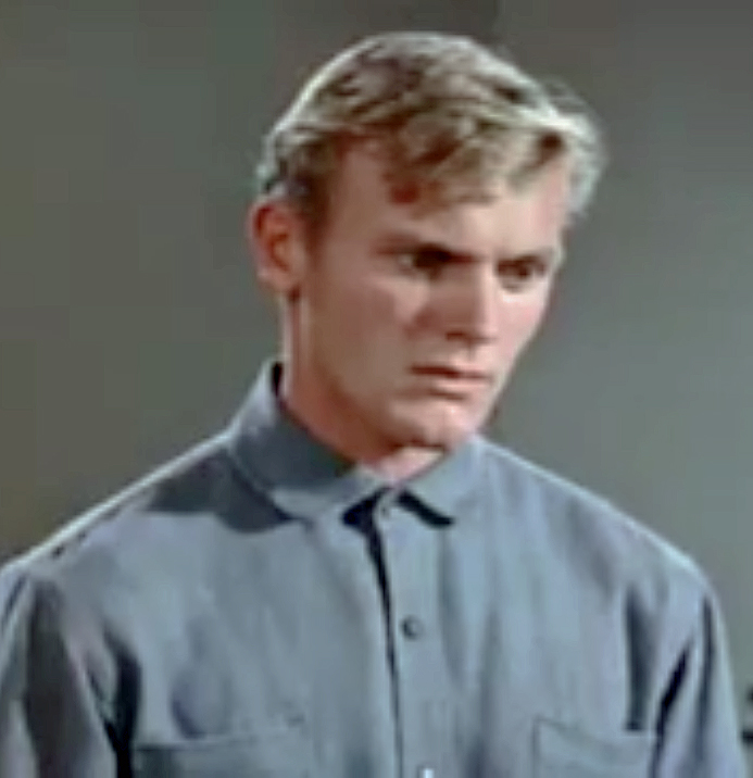 Tab Hunter in trailer for "Gunman's Walk" (1958)